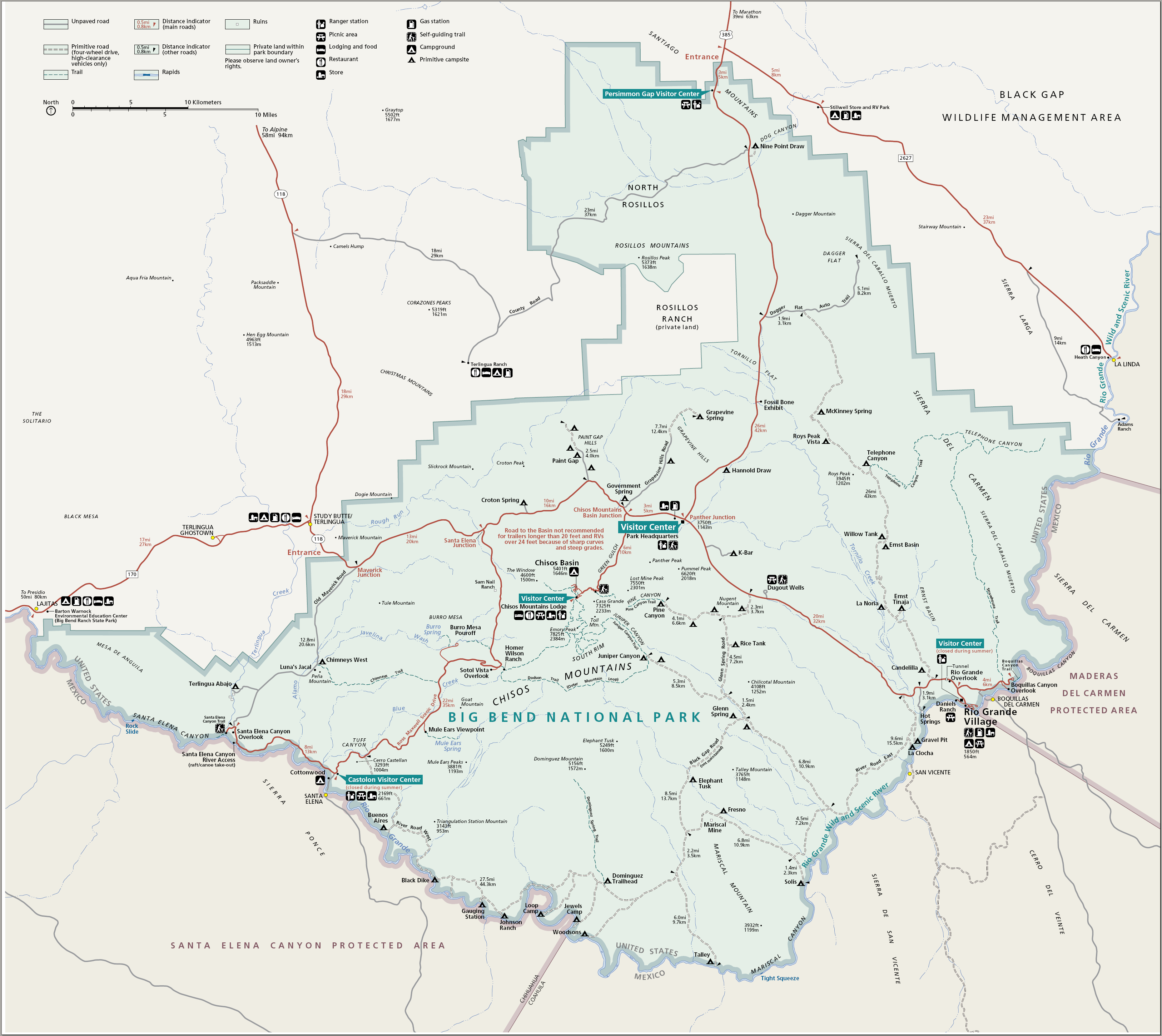 Map of Big Bend National Park, Texas